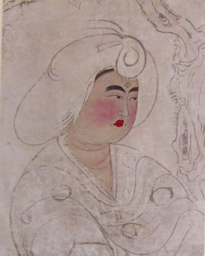 Detail of No. 4 of Six SCREEN PANELS WITH DESIGN OF LADIES UNDER TREES, DECORATED WITH BIRD'S FEATHERS Colour, ink, feathers on paper. One panel total size about 136cm high and 56cm wide.